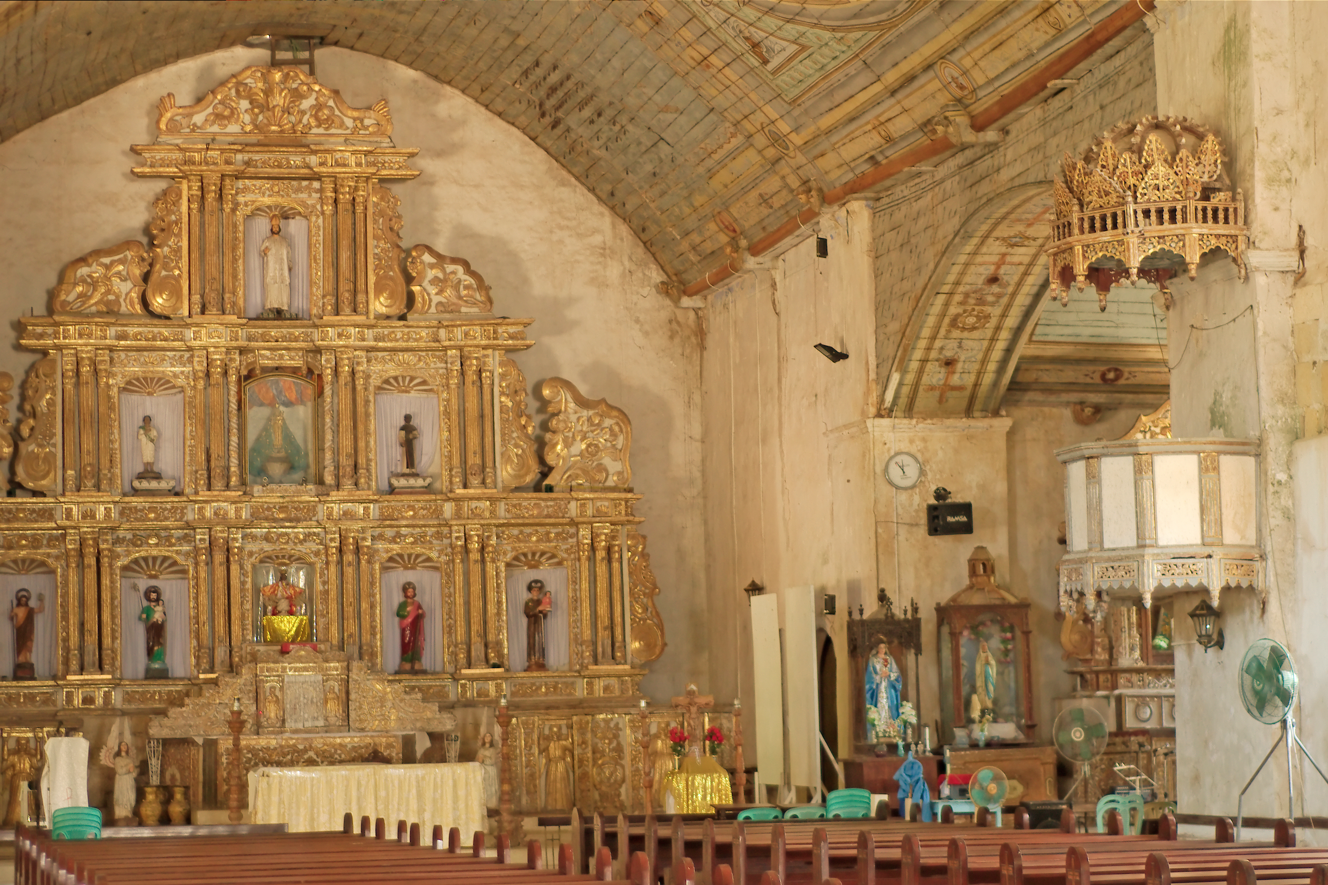 Church Patrocinio de Maria, Boljo-on, Cebu